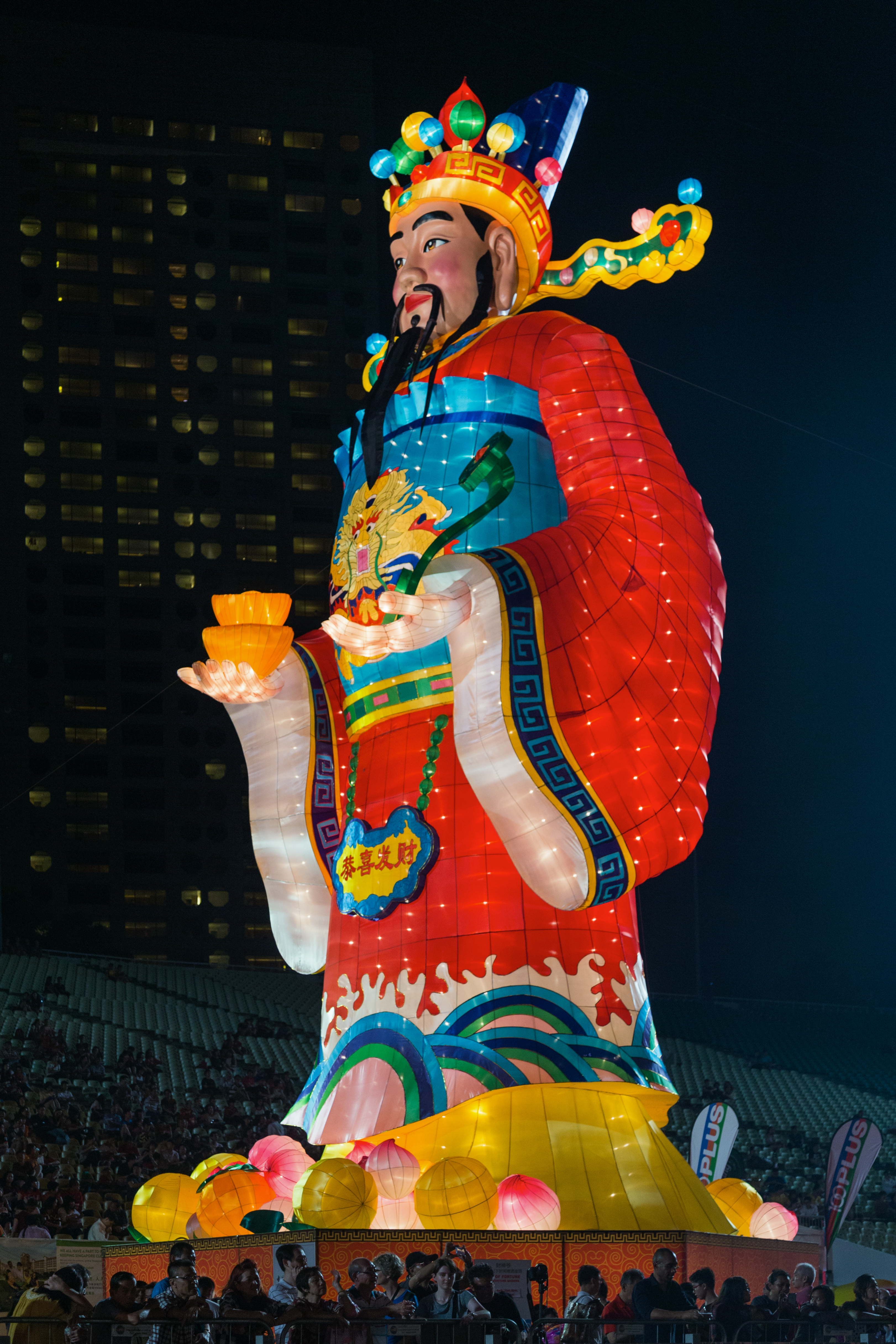 Decorations on the occasion of Chinese New Year - River Hongbao 2016. Downtown Core, Central Region, Singapore.